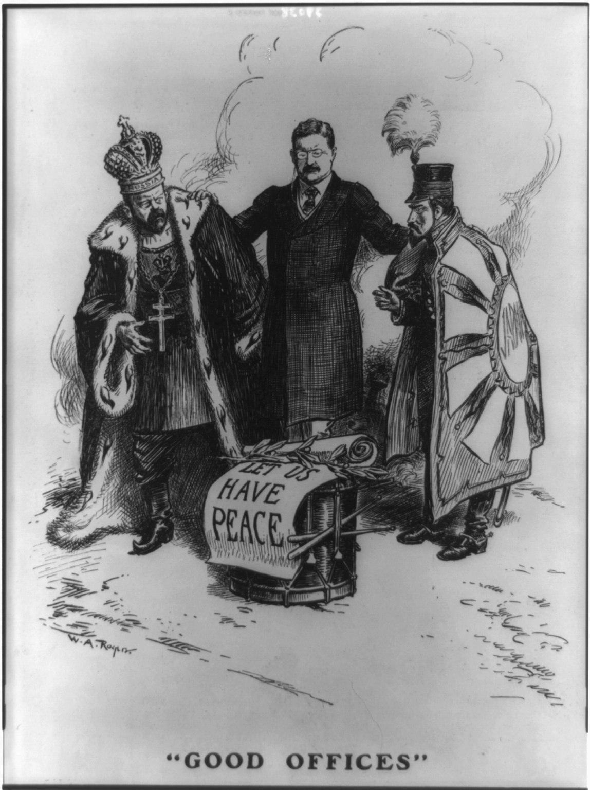 Title: "Good offices" / W. A. Rogers. Abstract/medium: 1 photographic print.